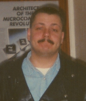 From Kevin Gibbs private collection. Picture taken 1988 - Coventry